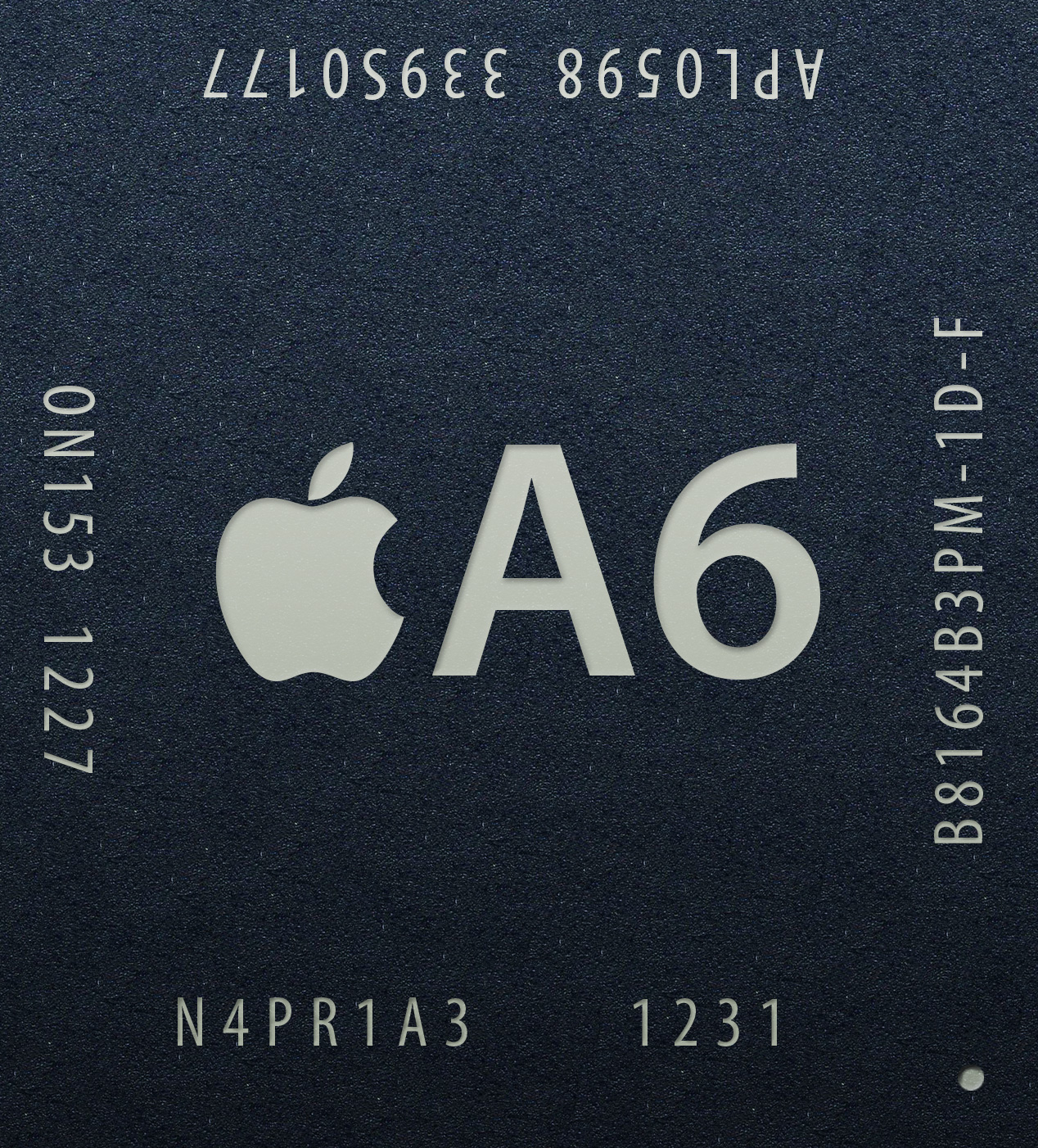 Apple A6 processor. Picture traced from this original photograph by Engadget